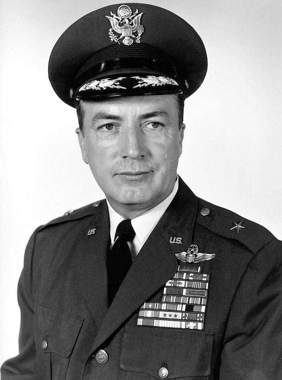 Brigadier General Woodrow A. Abbott, Retired June 01,1974, Died December 29,1994